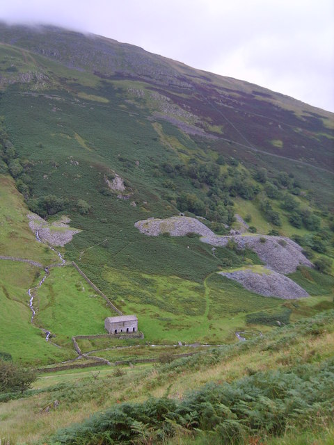 From Troutbeck Tongue Ascending the east flank looking at the barn and old quarry on the slopes of Yoke